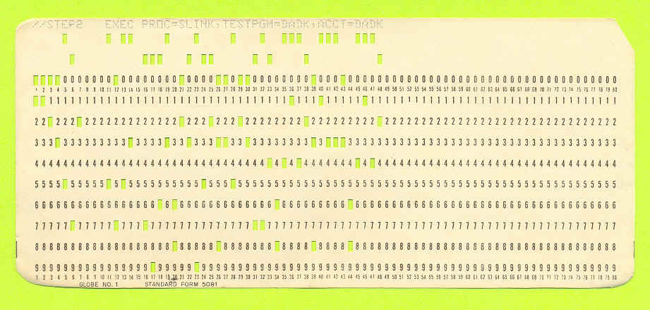 Description: 5081 data processing card containing a line of DOS JCL code. The code reads: //STEP2 EXEC PROC=SLINK,TESTPGM=DADK,ACCT=DADK Source: Scanned image of my personal property Date: 10 November 2006 Author: Dick Kutz (Dick107) 04:30, 11 November 2006 (UTC)) Permission: GFDL Other versions: None